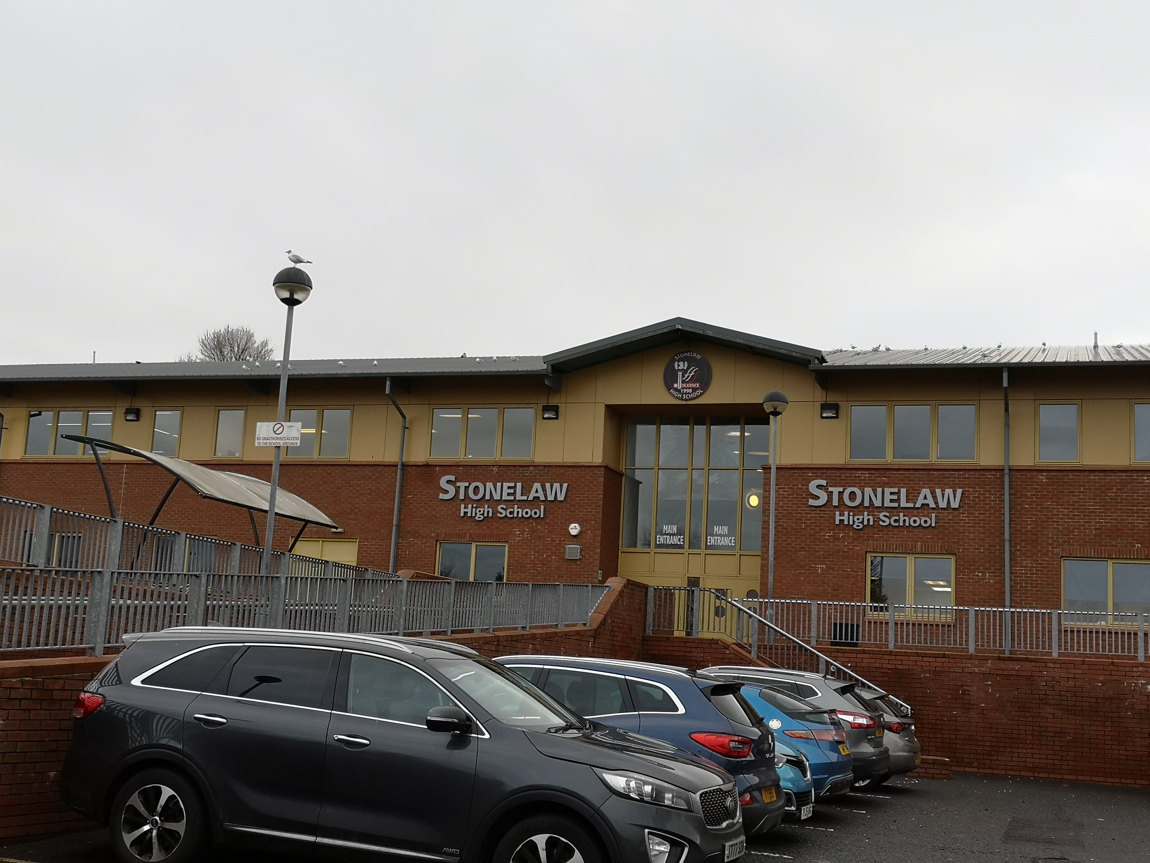 Main entrance of Stonelaw High School, Rutherglen, Scotland